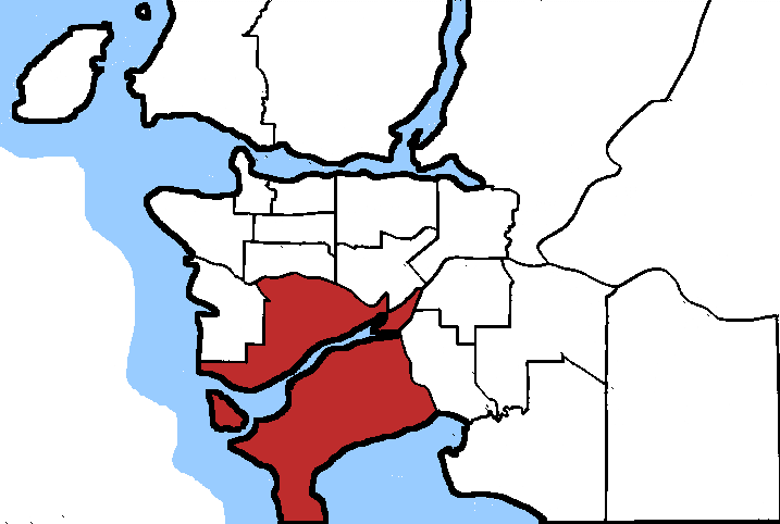 Map of the Delta—Richmond East electoral district. Based on Earl Andrew's maps, created by SimonP.